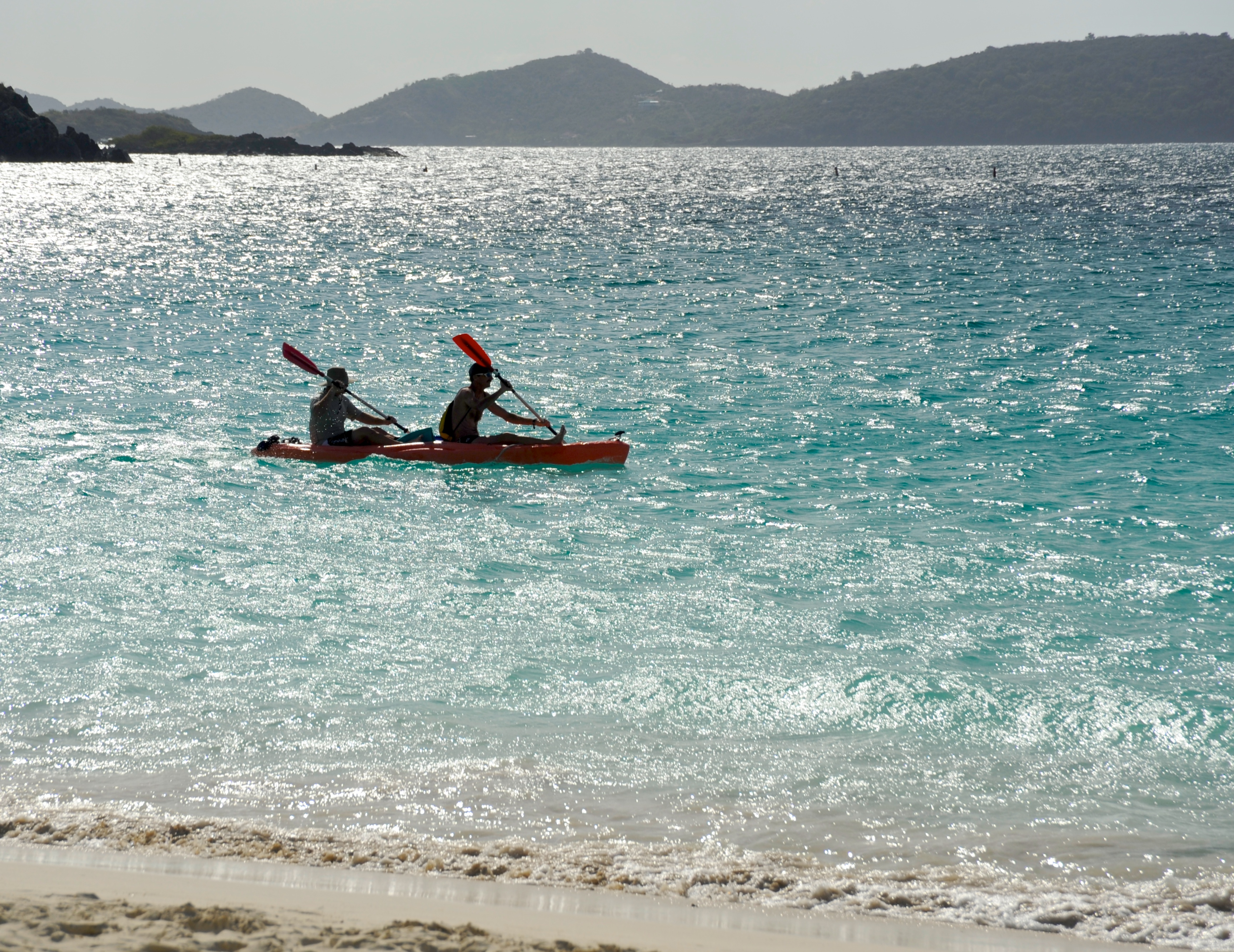 Sea kayaking at Trunk Bay — in Virgin Islands National Park on St. John island. In the United States Virgin Islands, the Caribbean.